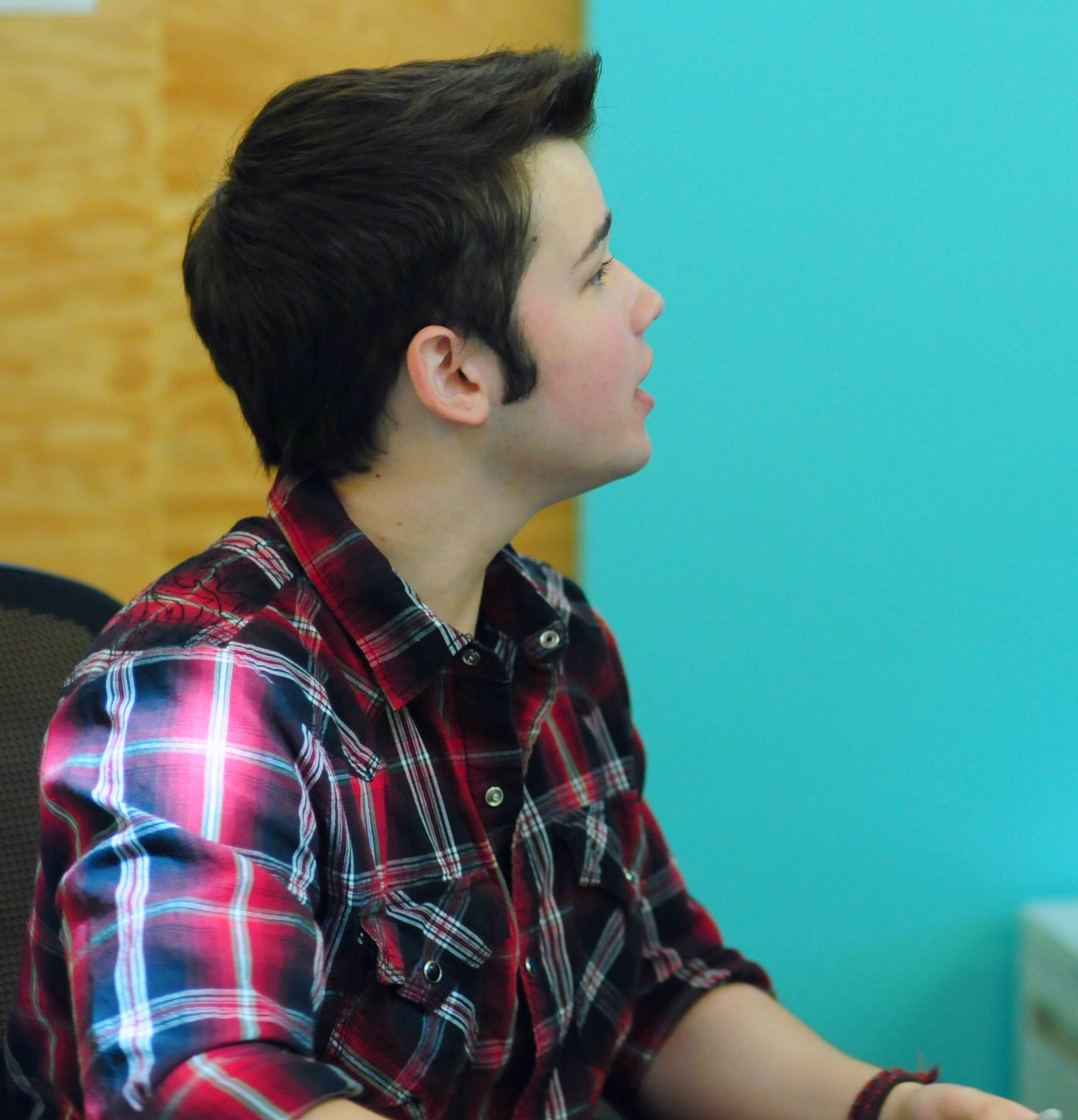 Nathan Kress from TV's iCarly.